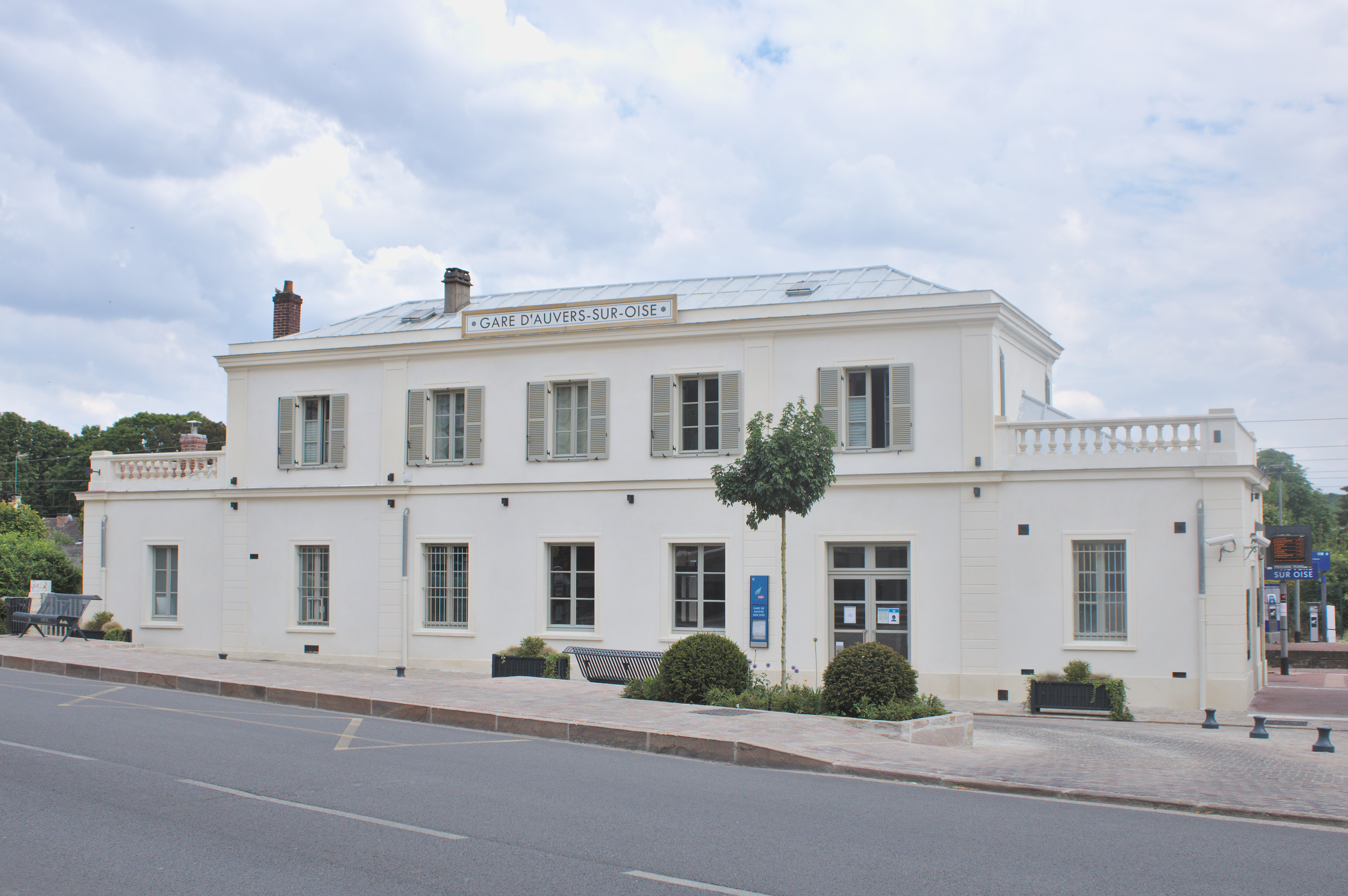 Train station of Auvers-sur-Oise, located on the street rue du Général de Gaulle.